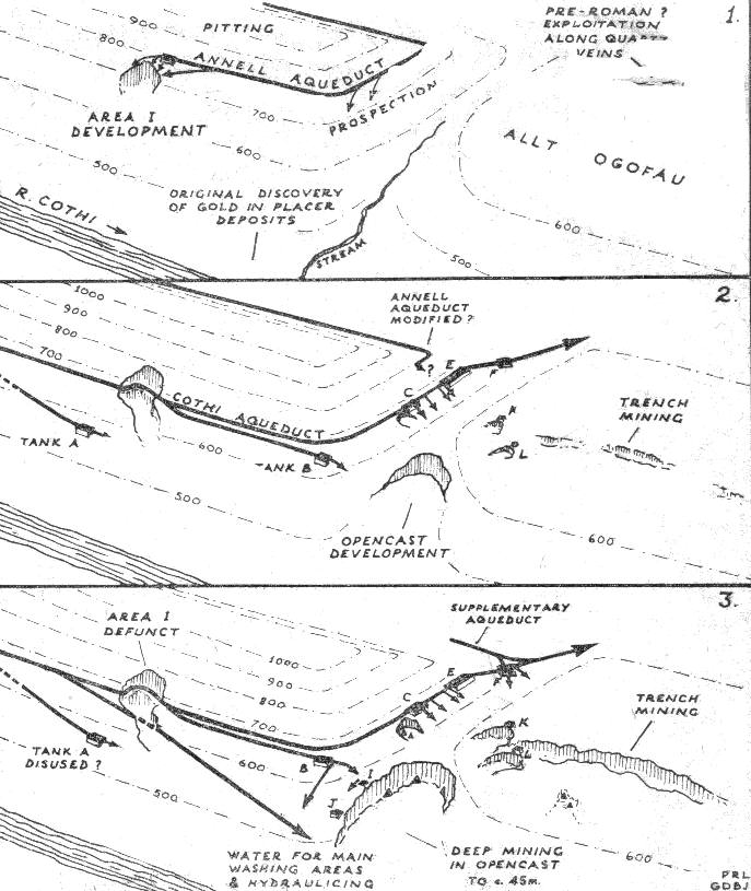 own map made in 1970